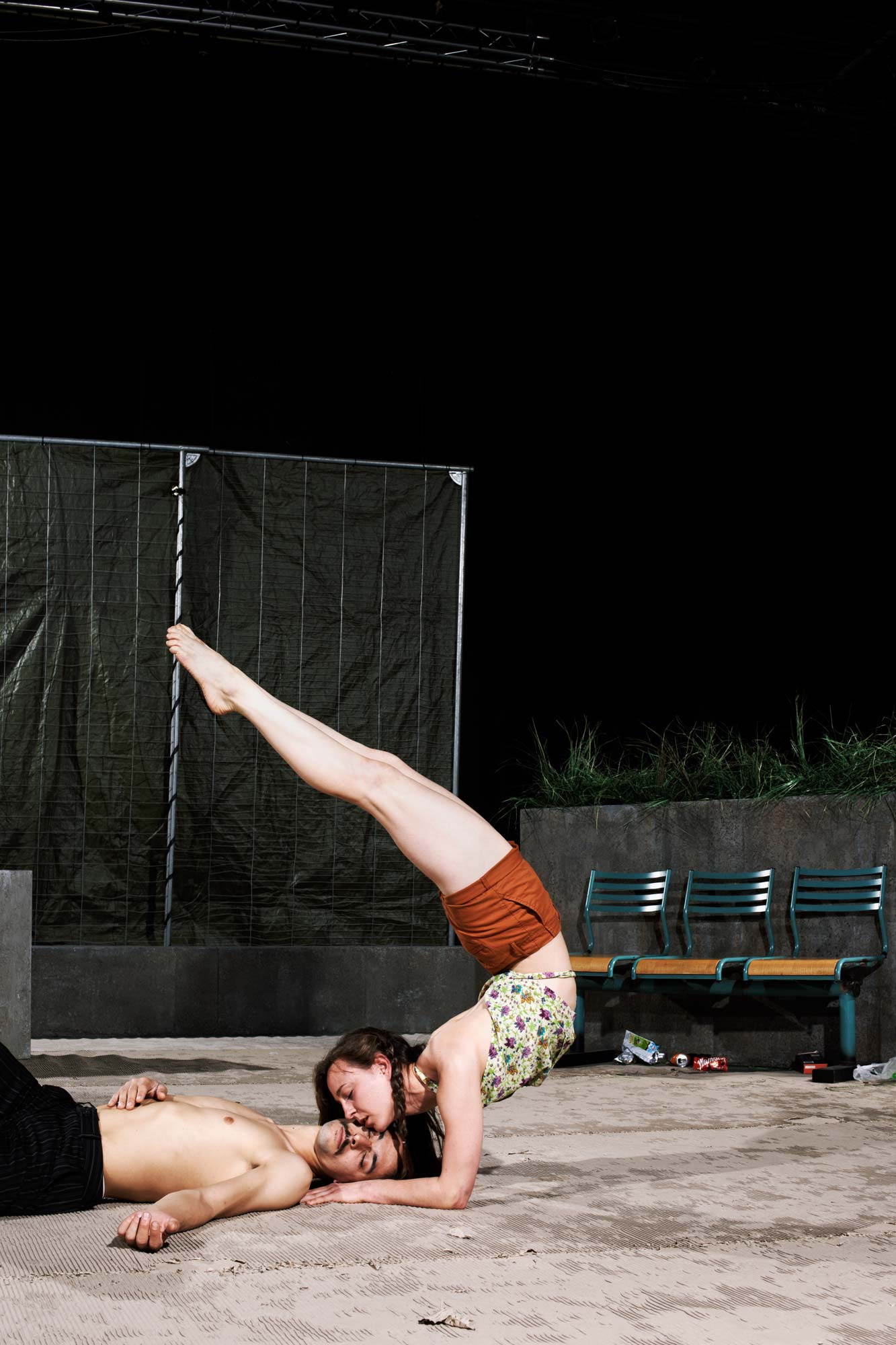 Jasmin Vardimon PARK